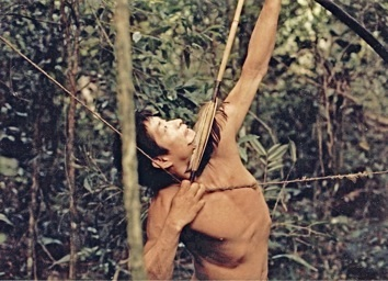 Ache Hunting